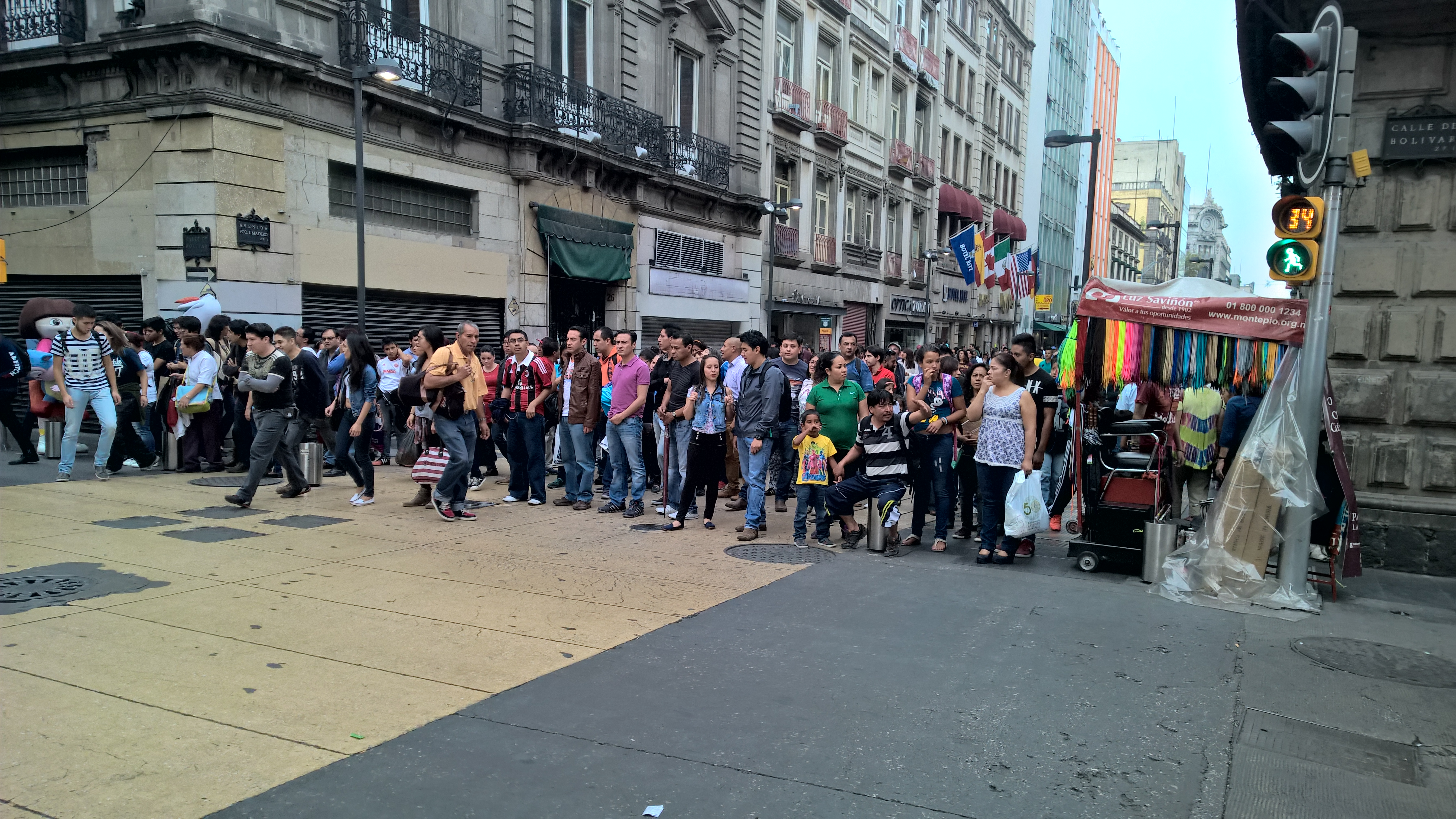 Francisco I. Madero Avenue